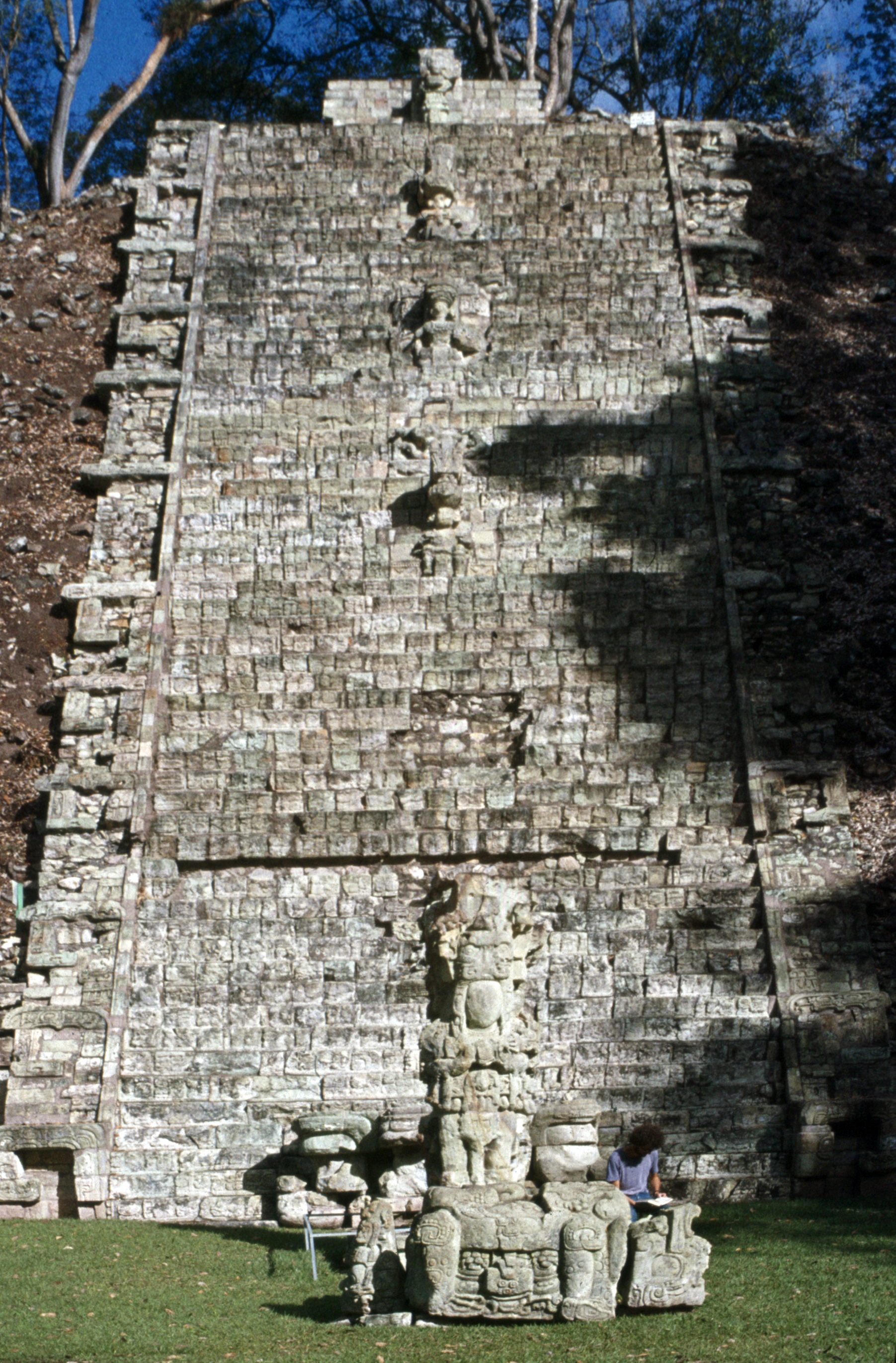 Copán in Honduras